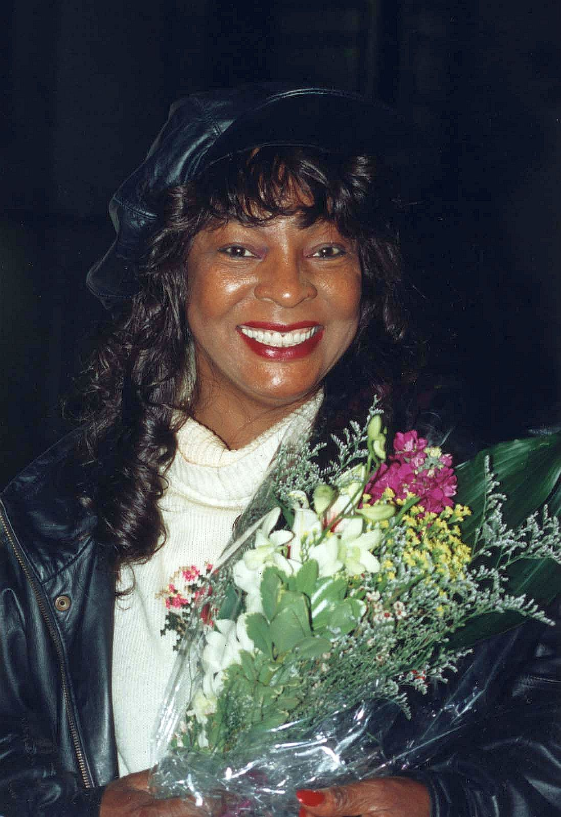 Baltimore M.D. Meyerhoff theater October 30, 1996